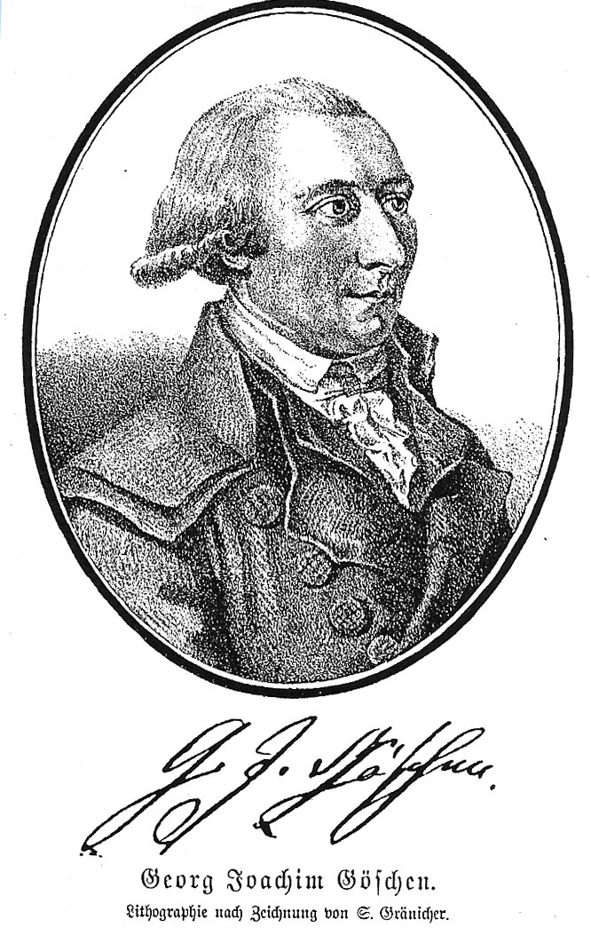 Georg Joachim Göschen (1752–1828), prominent German bookseller and publisher